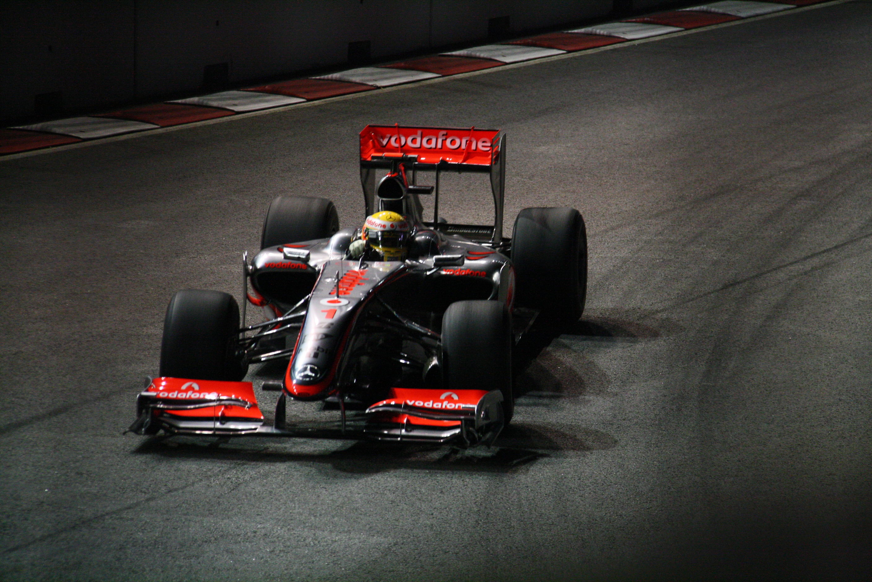 Lewis Hamilton driving for McLaren at the 2009 Singapore Grand Prix.